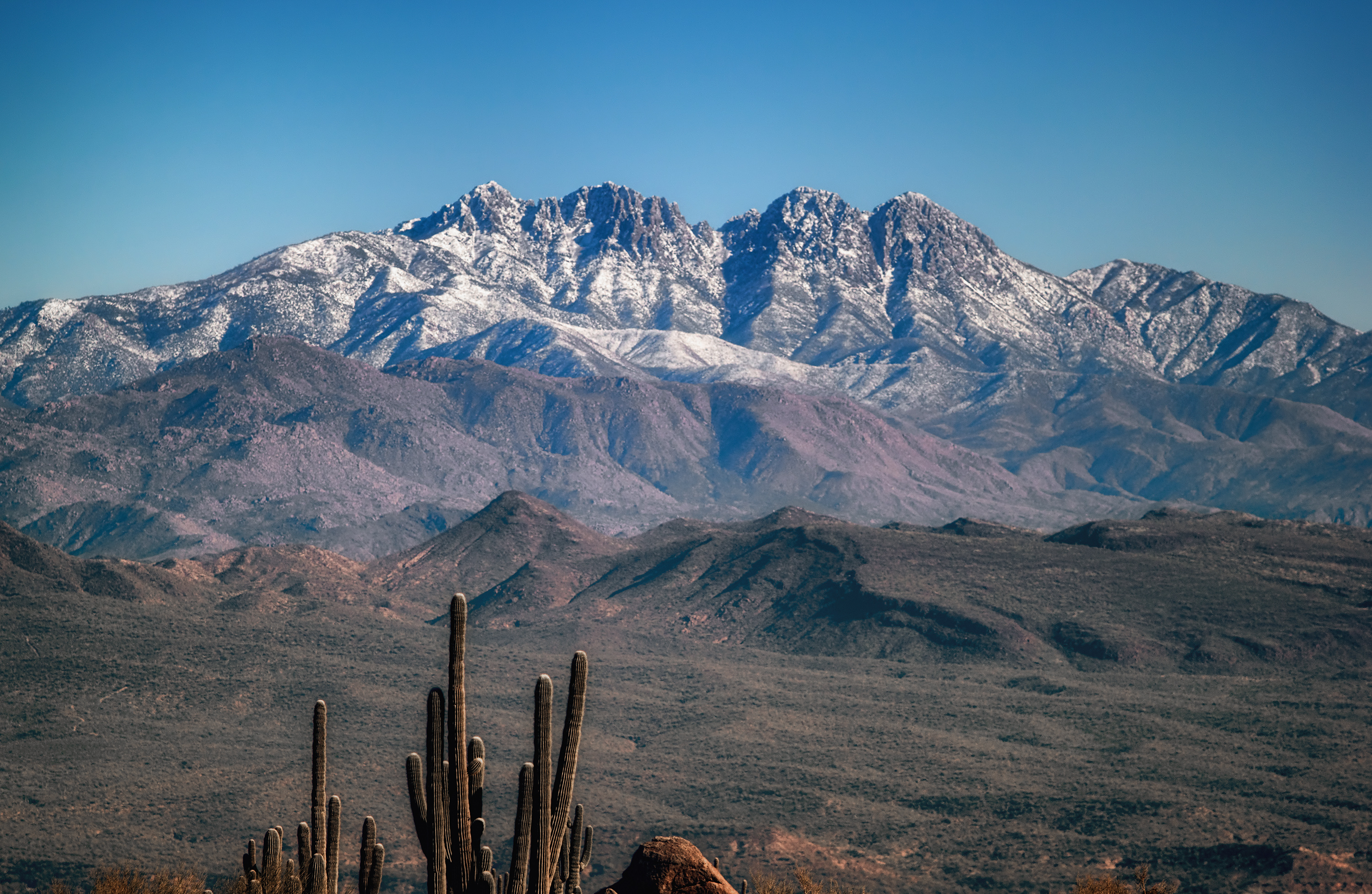 The Four Peaks with a dusting of snow, seen from McDowell Sonoran Preserve.